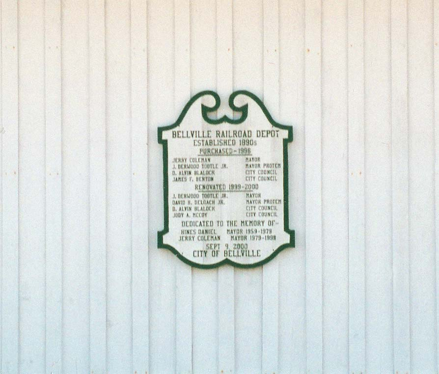 The train depot in Bellville, Georgia. The town has purchased the depot and renovated it. Once a year, the town has a festival for "railway days." Photo taken by user:Geogre on March 25, 2005. Donated to public domain.